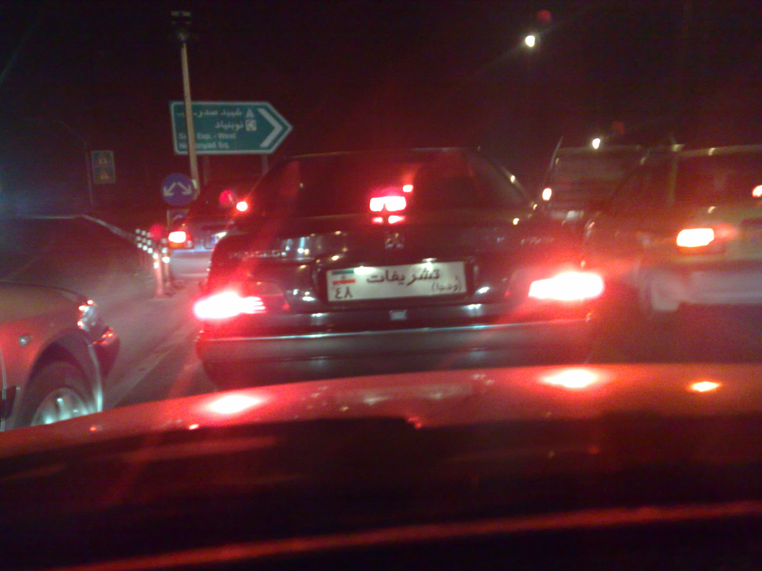 Peugeot Pars 16V motorcade escort vehicle, used by the Iranian government